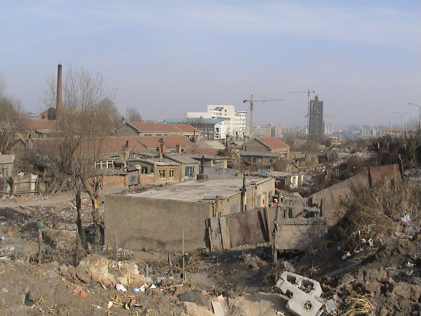 An image from a slum district in Changchun, China